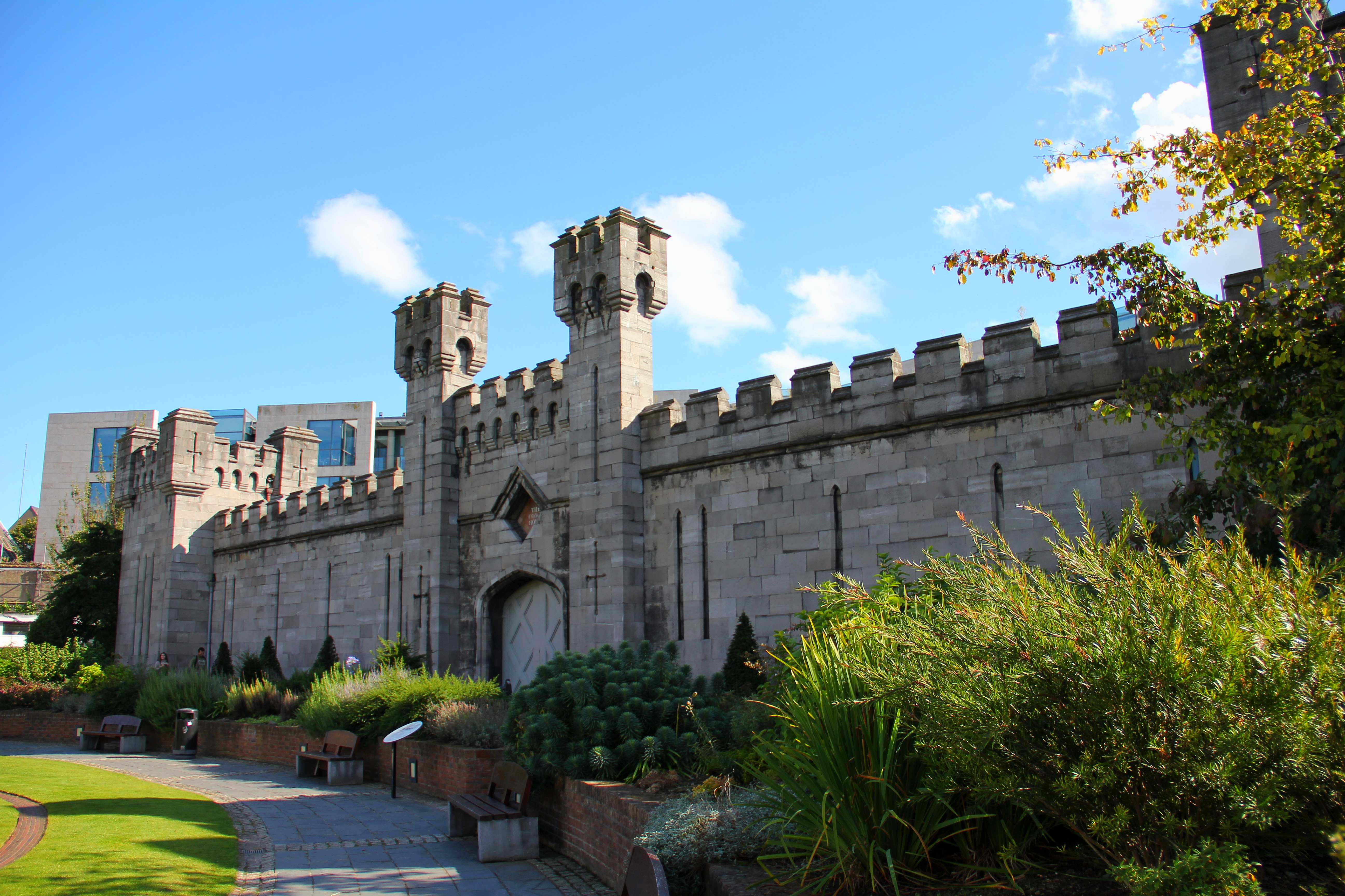 The Coach House of Dublin Castle in the Dubhlinn Gardens in Dublin, Ireland.